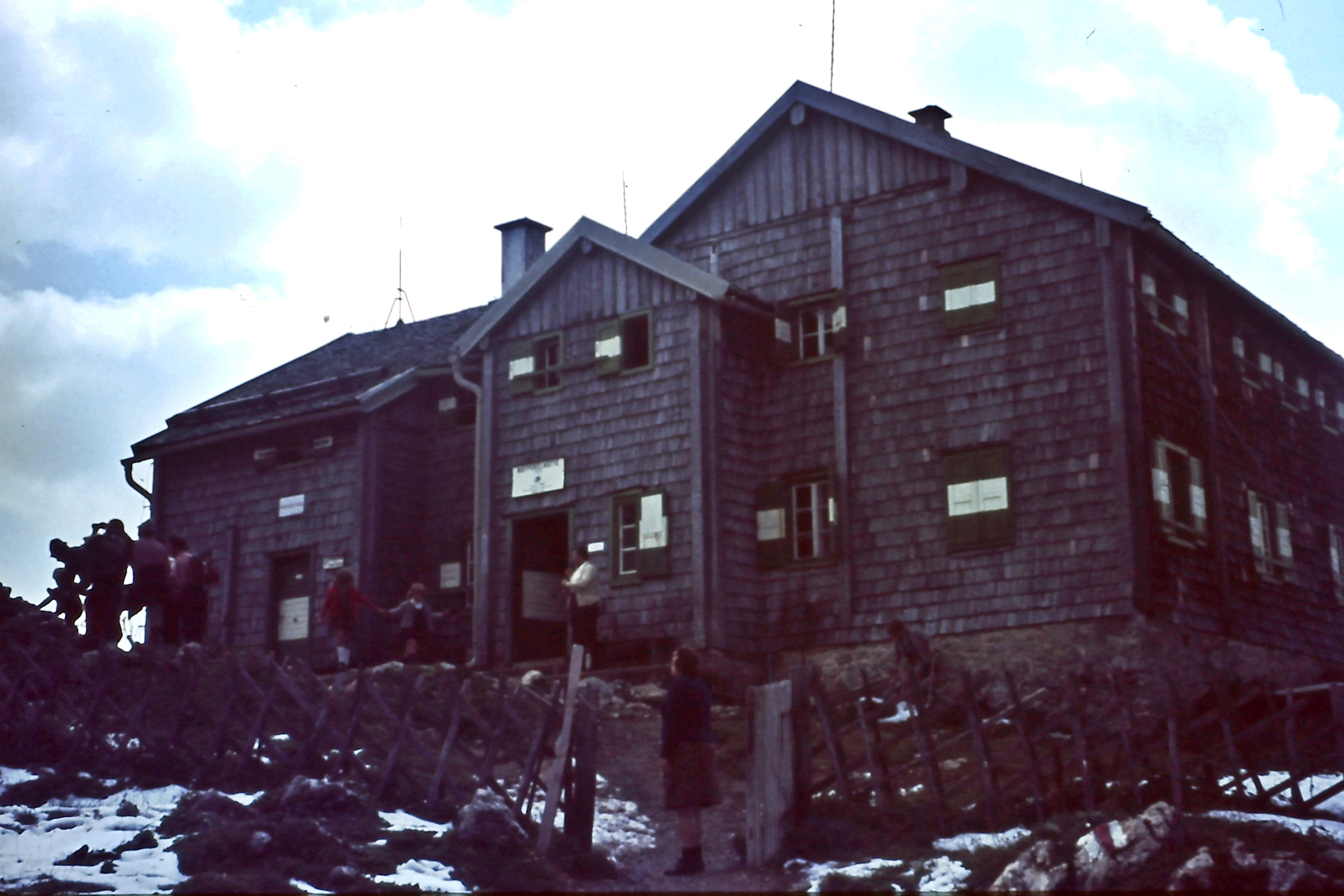 Hofpürglhütte in summer 1971